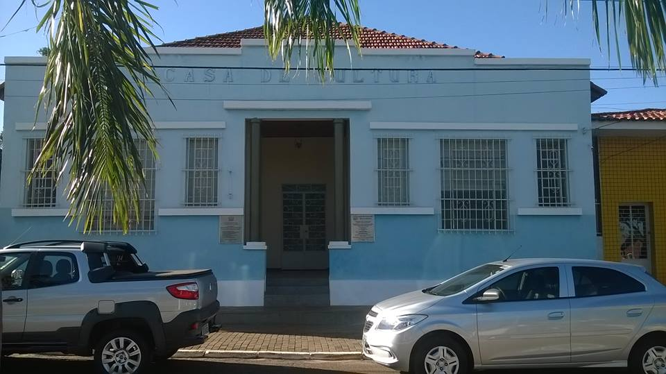 House of Culture in Canápolis, Minas Gerais, Brazil.